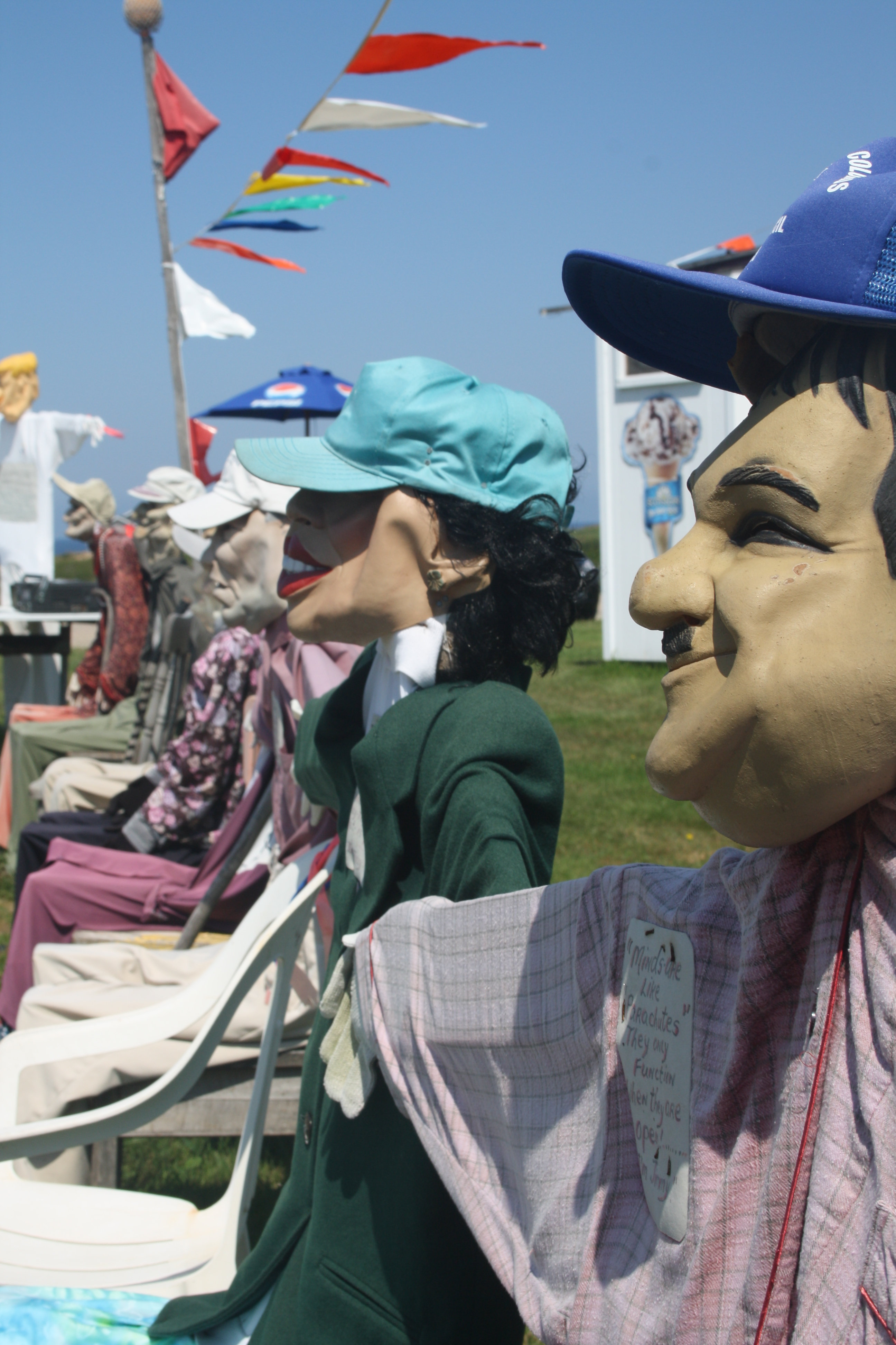 Scarecrows sitting at Joe's Scarecrow village, near Cheticamp, Nova Scotia, Canada.